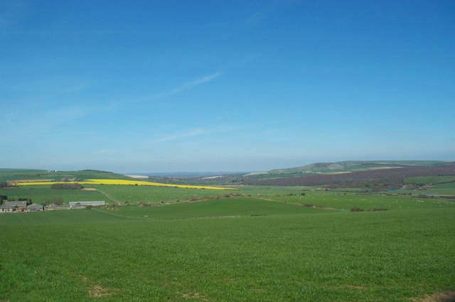 Cuckmere Valley. Valley of the River Cuckmere, as seen looking inland from the clifftops between Seaford Head and the Cuckmere Estuary.